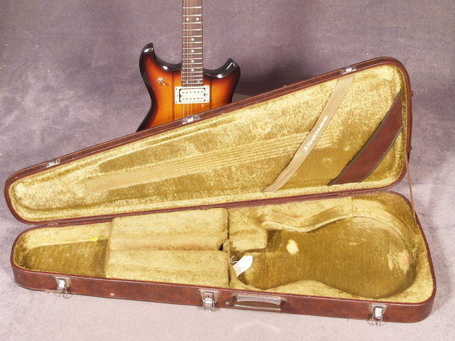 Ibanez_Studio_ST-300_with_open_Vault_Case